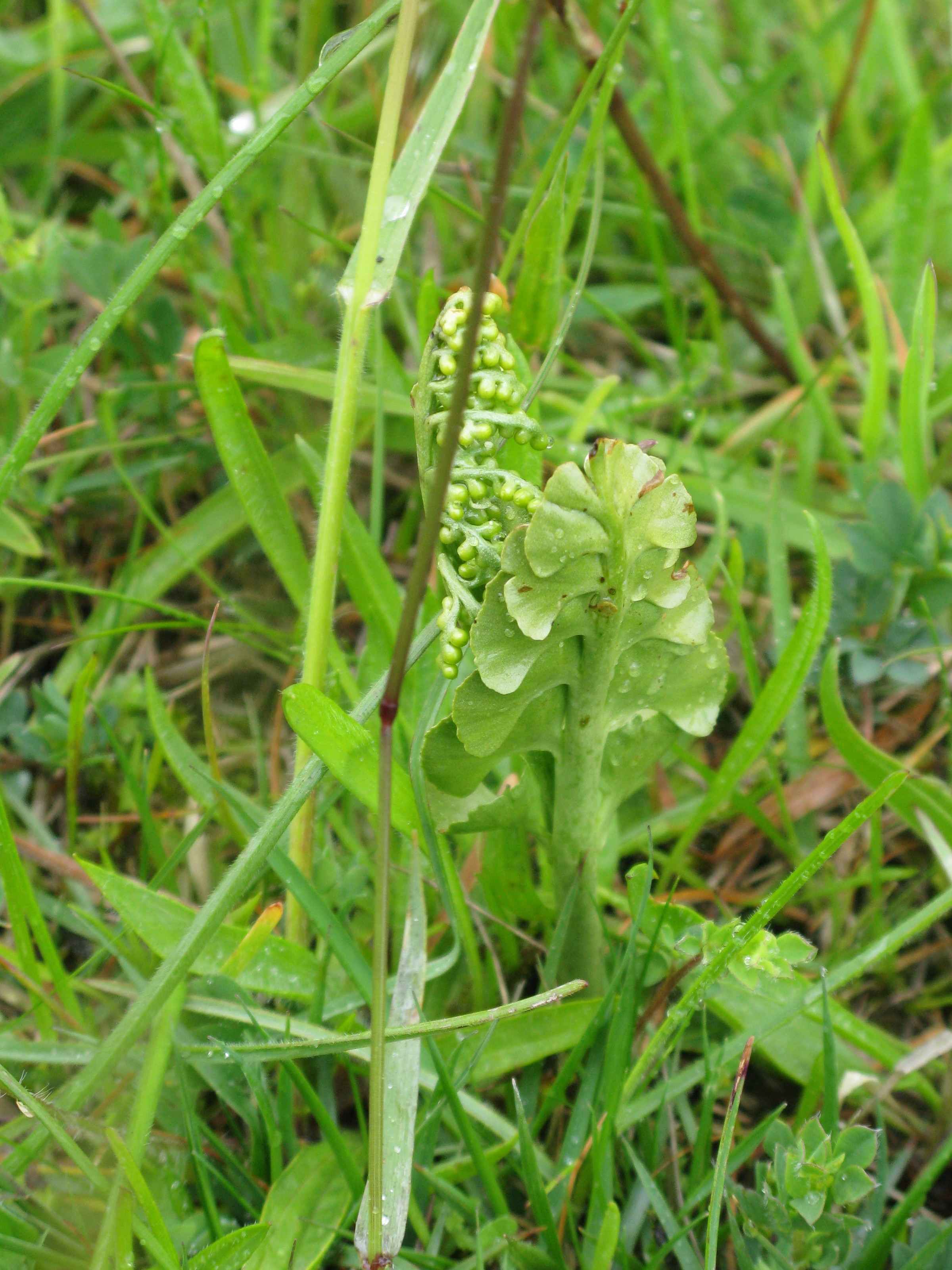 Botrychium lunaria. Not a great pic. But thought I'd share it. Hadn't come across this species before, which Graham (Flora and Vegetation of County Durham) describes as "rare and sparse" in the county. Found it just just east of Waskerley Station on the C2C. Lovely little fern.